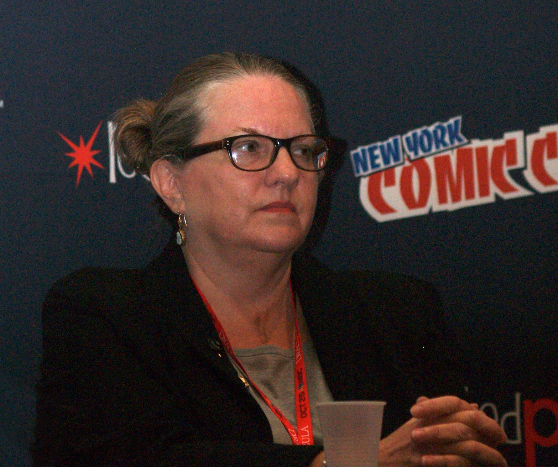 Novelist Carol Goodman (aka Juliet Dark) at the "Beyond Normal" panel on Saturday October 12, 2013 at the Jacob K. Javits Convention Center in Manhattan, Day 3 of the 2013 New York Comic Con. The panel dealt with paranormal-themed novels. This photo was created by Luigi Novi. It is not in the public domain, and use of this file outside of the licensing terms is a copyright violation.